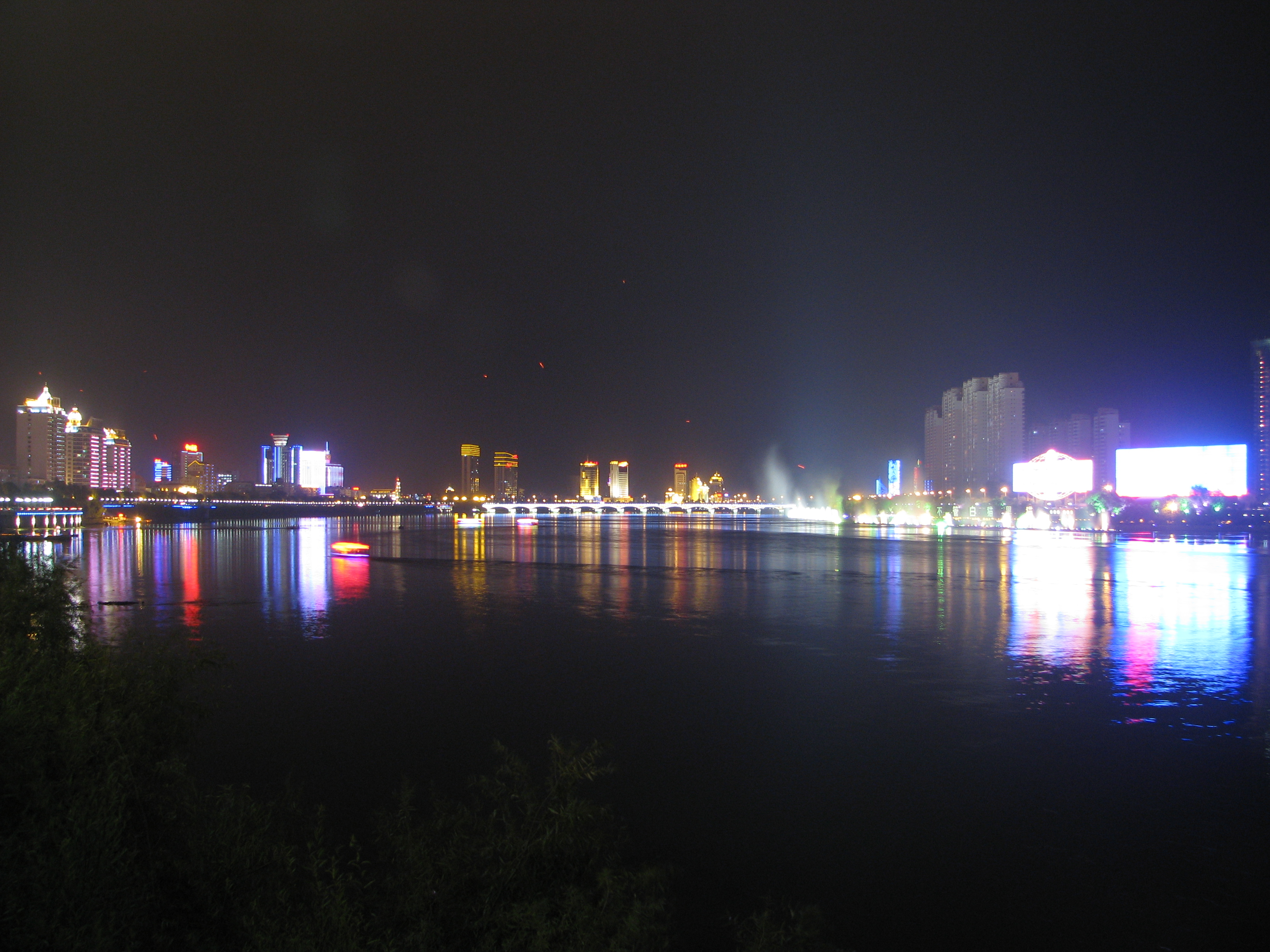 Night scenery of the Songhua River in Jilin City